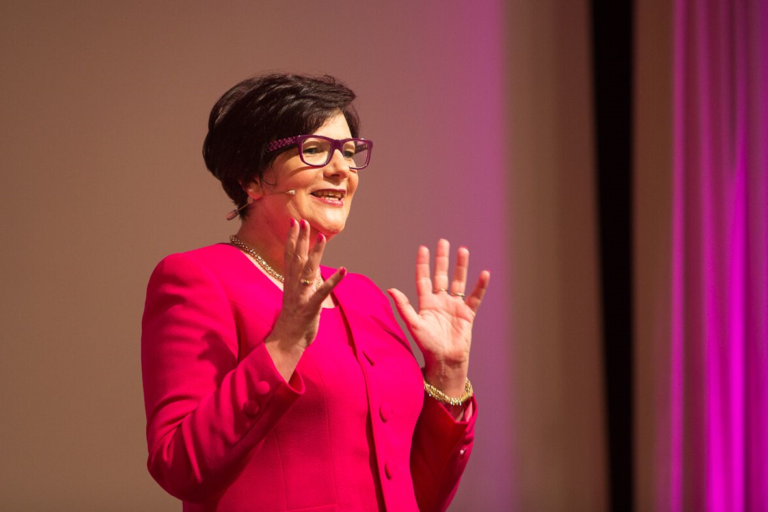 German consultant, writer, presenter and public speaker Petra Polk, Founder of W.I.N – Women In Network at W.I.N Business Conference in Frankfurt am Main (2018)